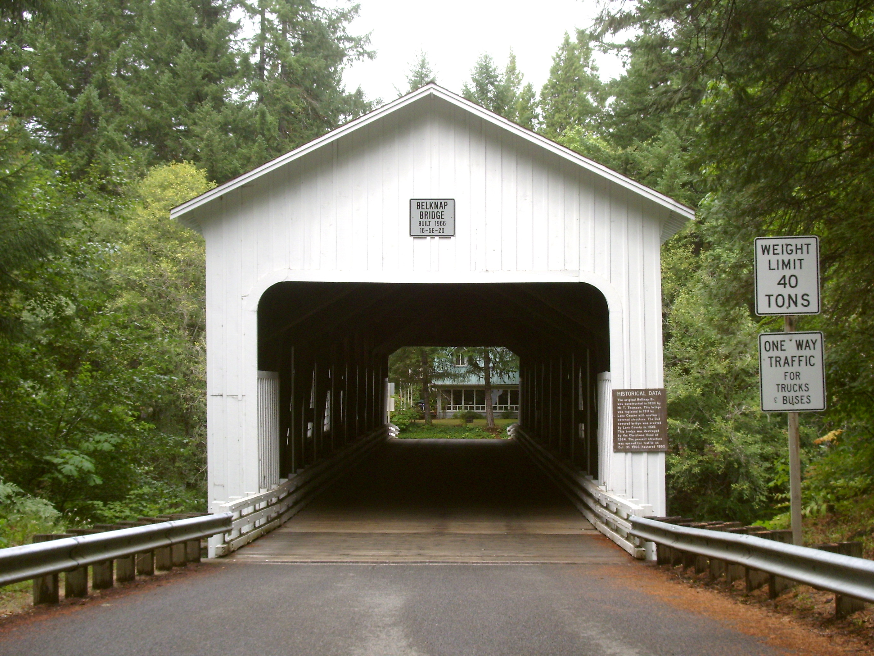 Belknap covered Bridge near Rainbow, Oregon across the McKenzie River